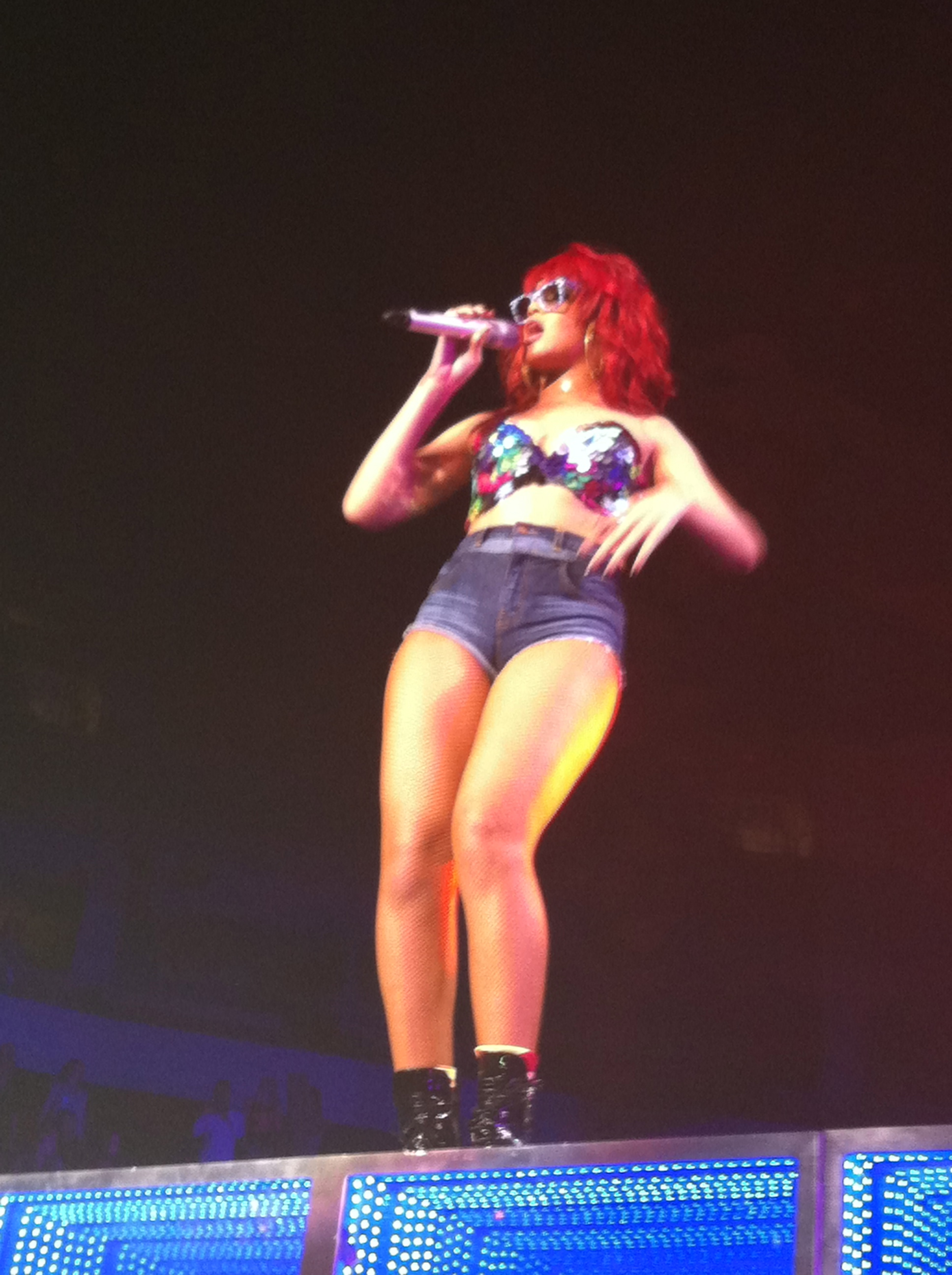 Rihanna live in Canada, on her tour The LOUD Tour. 24th June 2011